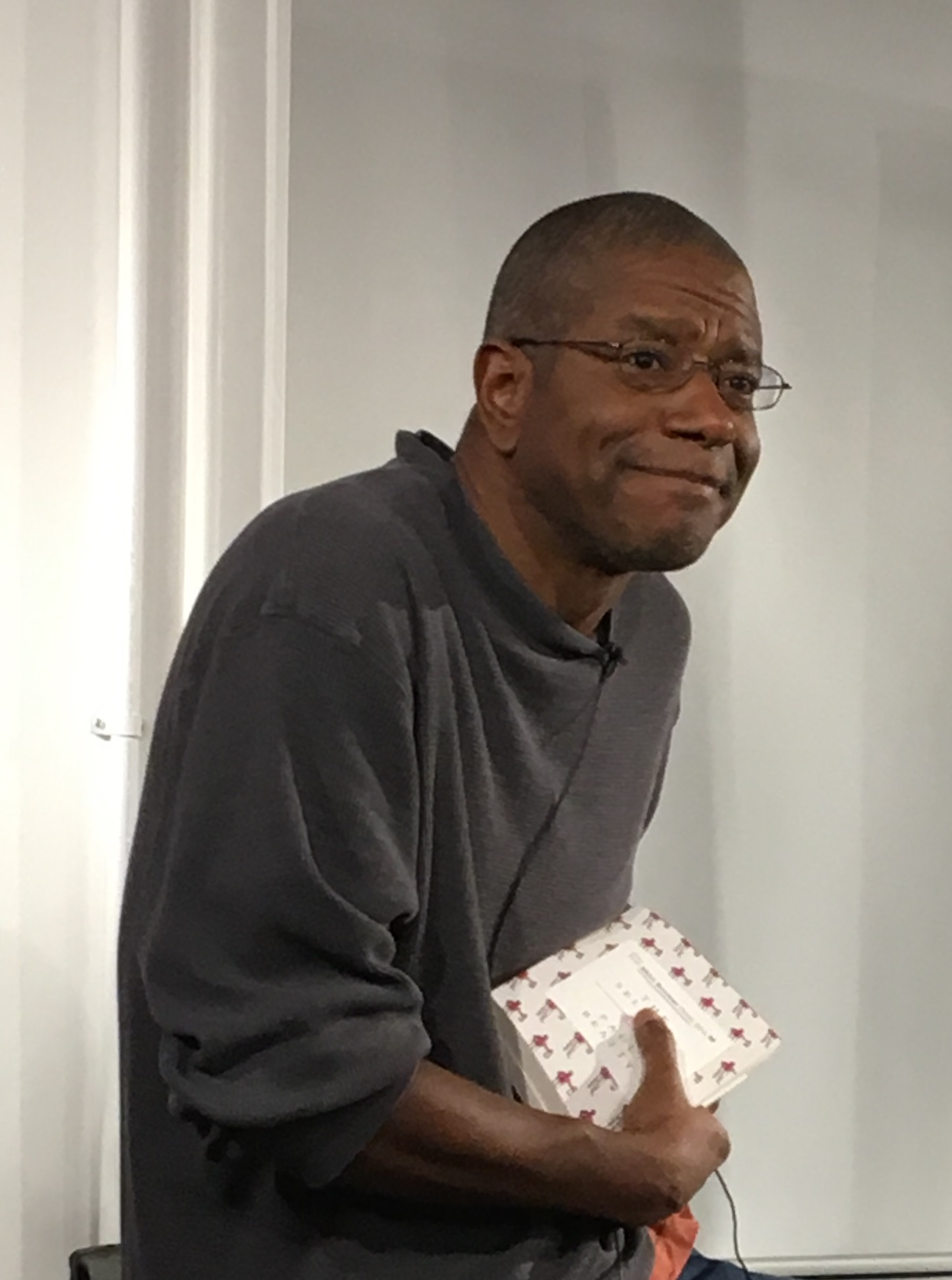 Paul Beatty at Foyles, Charing Cross in London on Oct 28, 2016